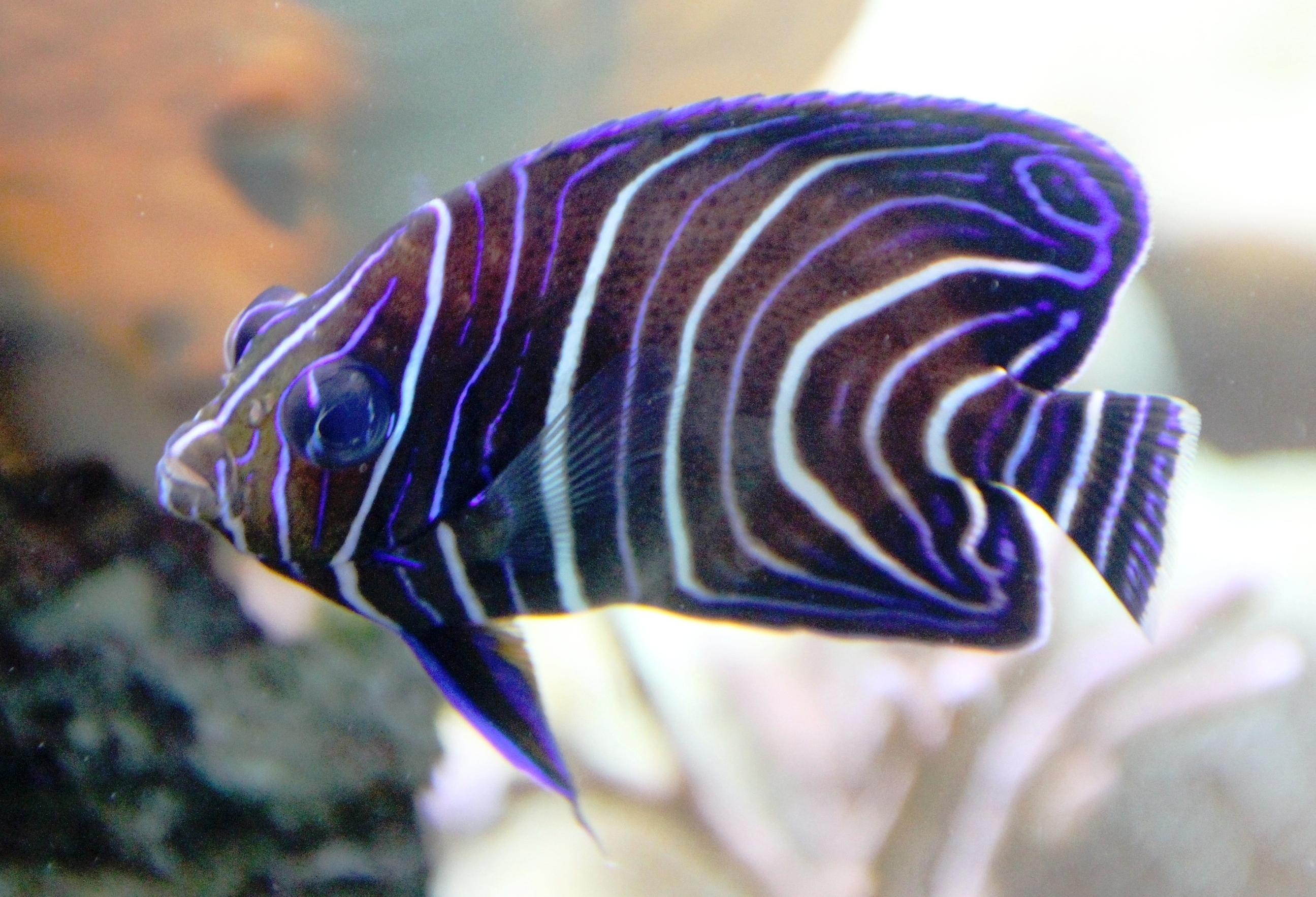 Pomacanthus rhomboides tropical aquarium fish at Universeum Science Park, in Gothenburg, Sweden